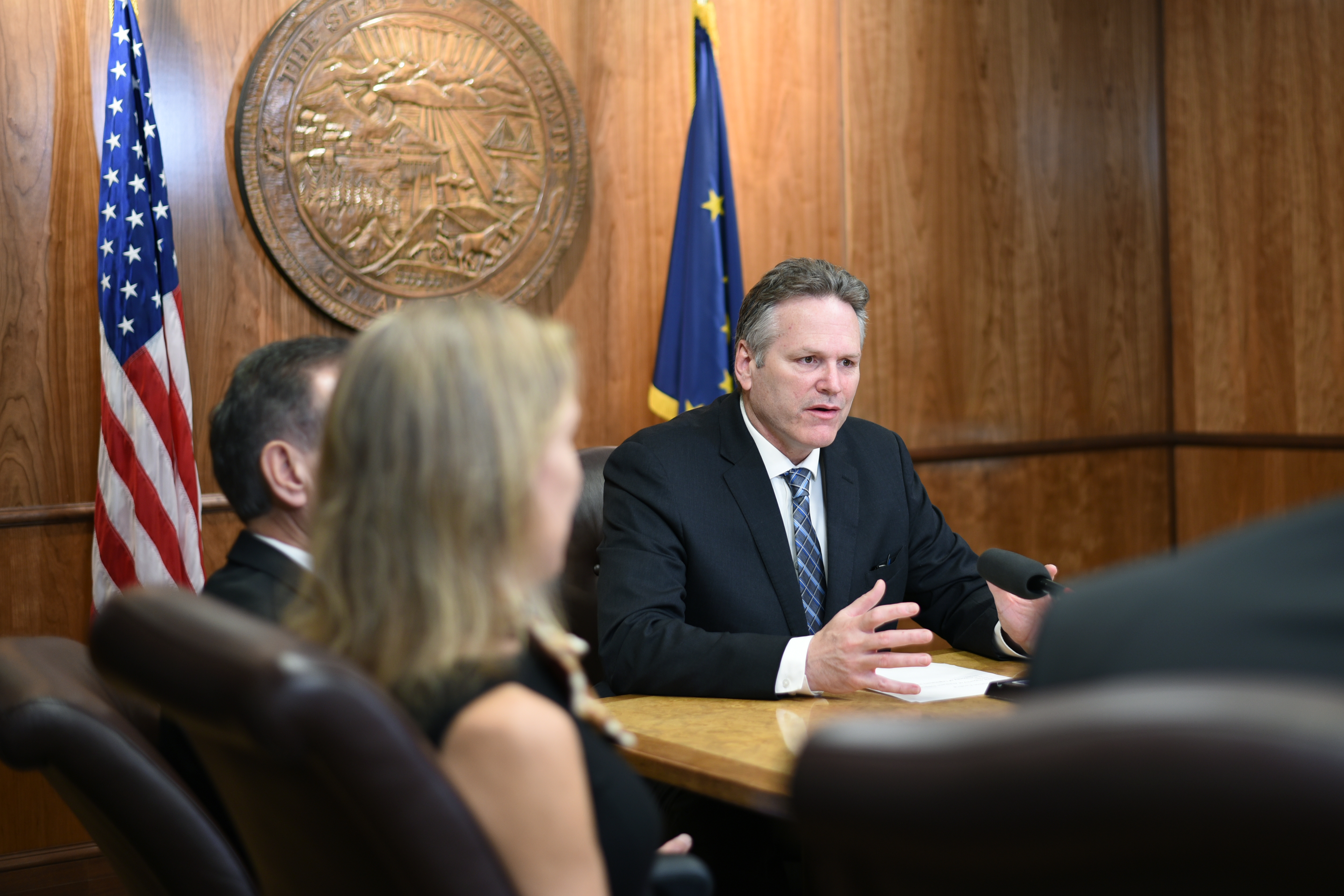 This photo is provided under a Creative Commons Attribution license. Please provide the following credit: "Photo used under Creative Commons license courtesy Paxson Woelber, The Alaska Landmine"